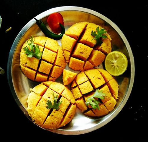 Home made dhokla